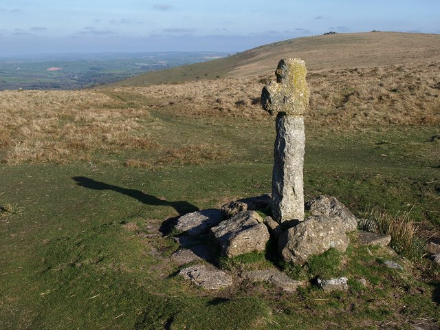 Spurrell's Cross. Another view of 15211. "It is unique amongst Dartmoor crosses in that the head and each of the arms had 2 spurs projecting from them. These spurs measure about one and a half inches long and two and a half inches wide." Again, Ugborough Beacon is on the right.